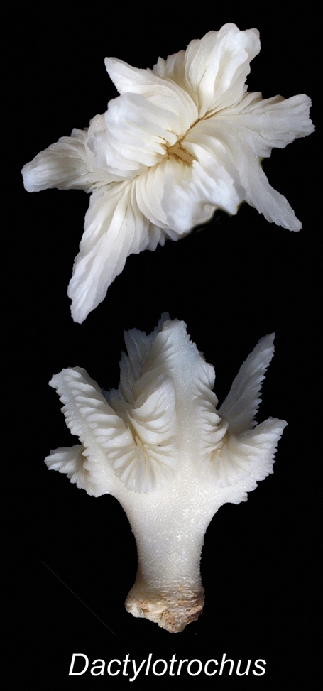 Cut-outs from original files: Recent_azooxanthellate_Scleractinia_(Cnidaria,_Anthozoa)_-_ZooKeys-227-001-g001 - 023